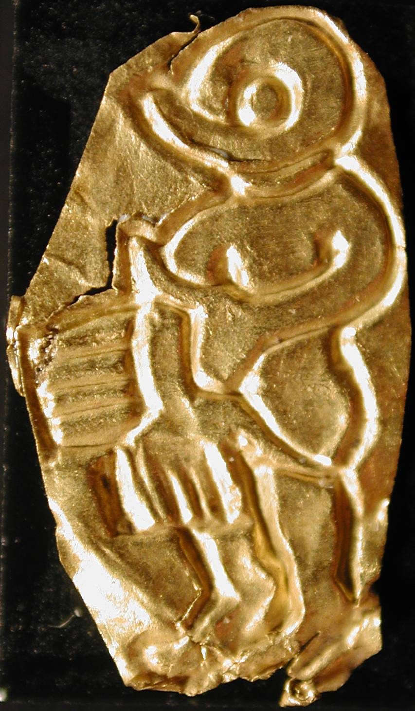 [D-III-1] guldgubber showing a wraith holding its right arm with its left hand